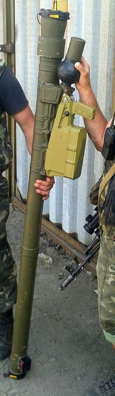 MANPADS captured by Ukrainian forces in Kramatorsk in May 2014: PZR Grom E2 missile and 9K38 Igla launch device